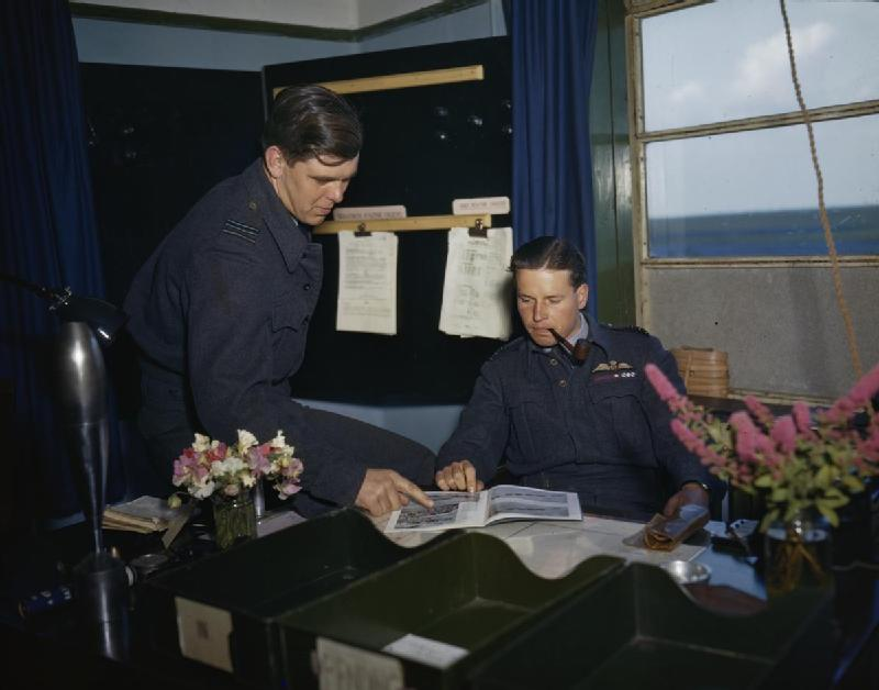 Wing Commander Guy Gibson, Vc, Dso and Bar, Dfc and Bar, Commander of 617 Squadron (dambusters) at Scampton, Lincolnshire, 22 July 1943 Wing Commander Guy Gibson at his desk with Squadron Leader D J H 'Dave' Maltby, one of his flight commanders.